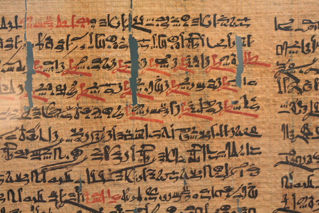 I had a wonderful day at the British Museum with CoryQ (of MonkeyRiverTown) and his wife Mary. These are everything I shot that day, unedited and uncleaned, except for shrinking them some to spead up the upload.